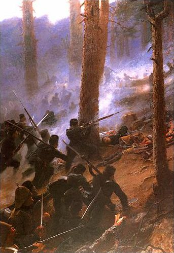 Gurkhas storming the heights of Peiwar Kotal, during the Second Anglo-Afghan war (1878)